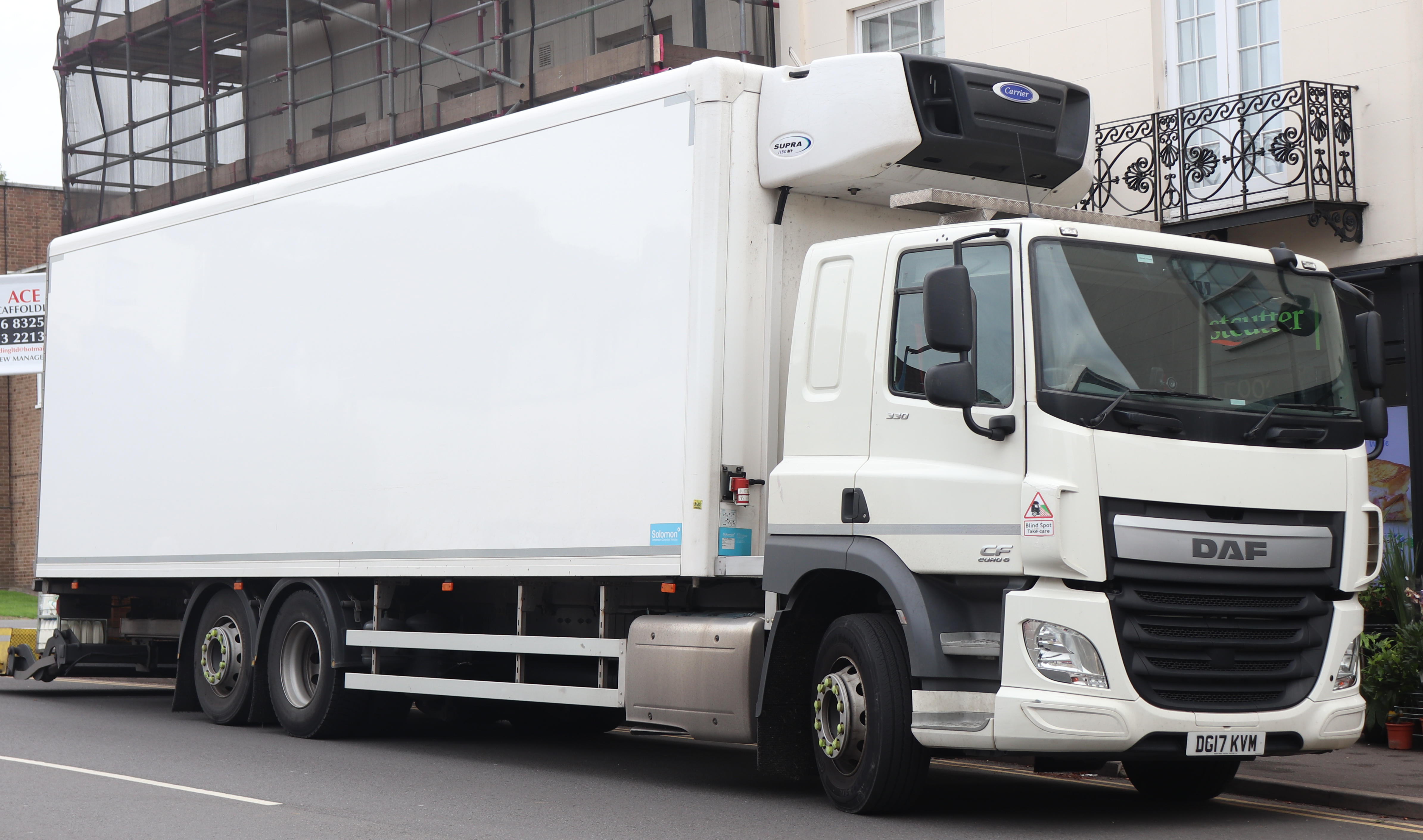 2017 DAF XF Euro 6 Taken in Leamington Spa